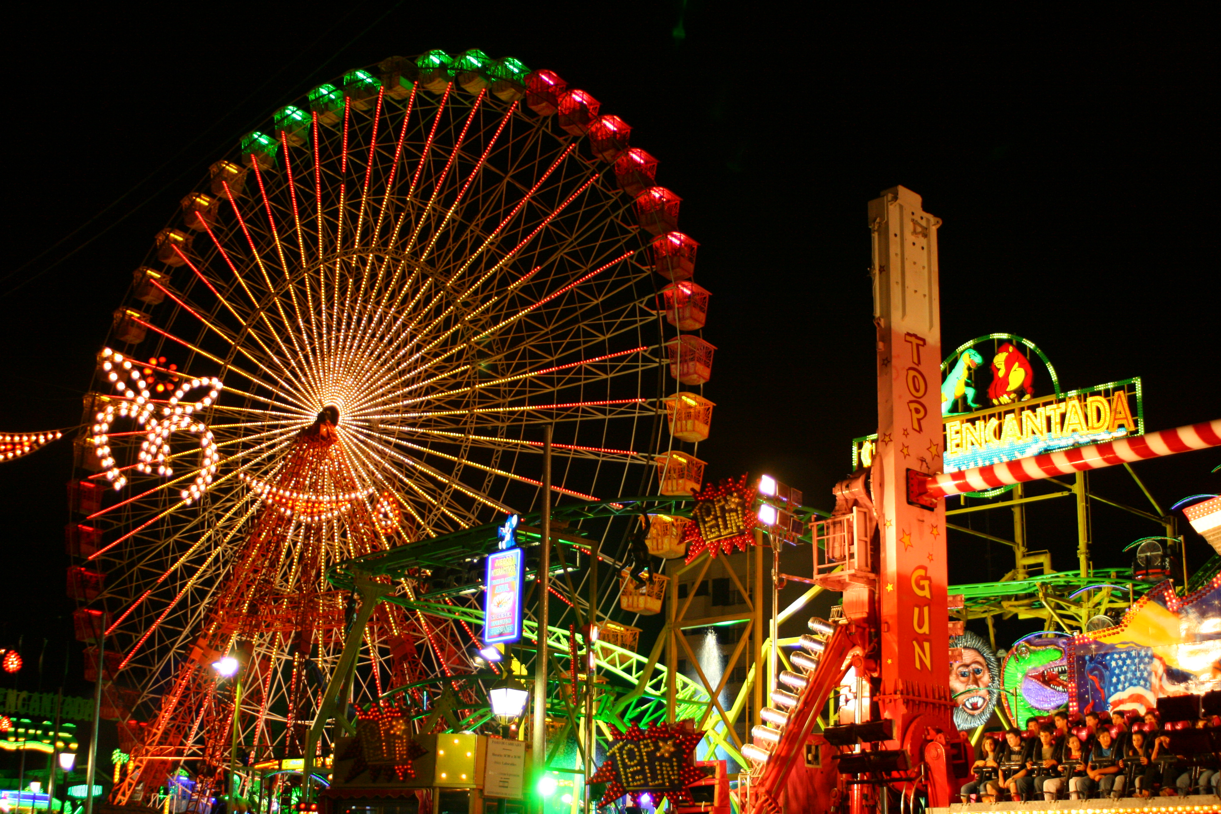 Parties of Albacete LA FERIA DE ALBACETE